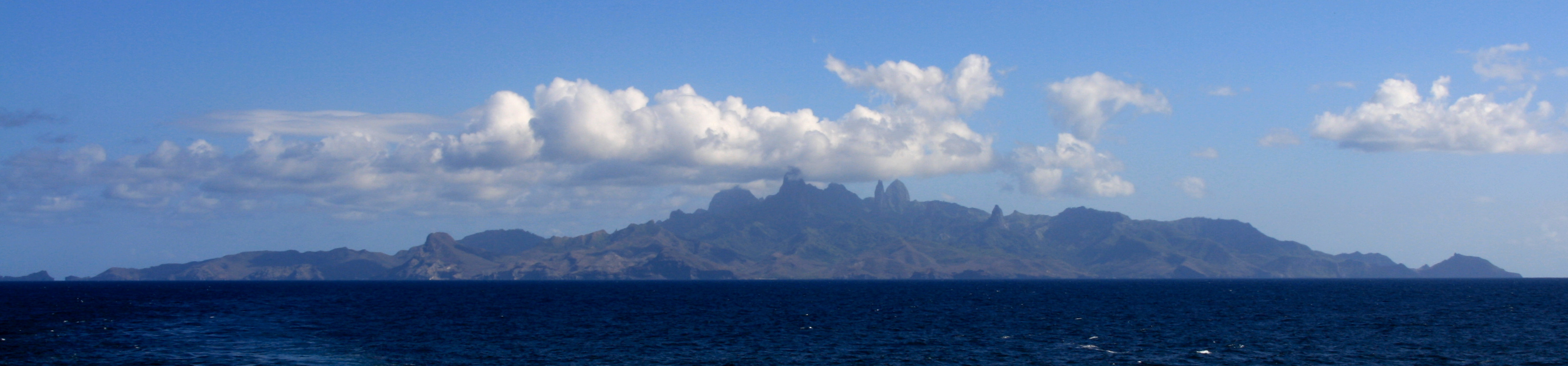 Panoramic view of Ua-Pou, Marquesas Islands, French Polynesia.